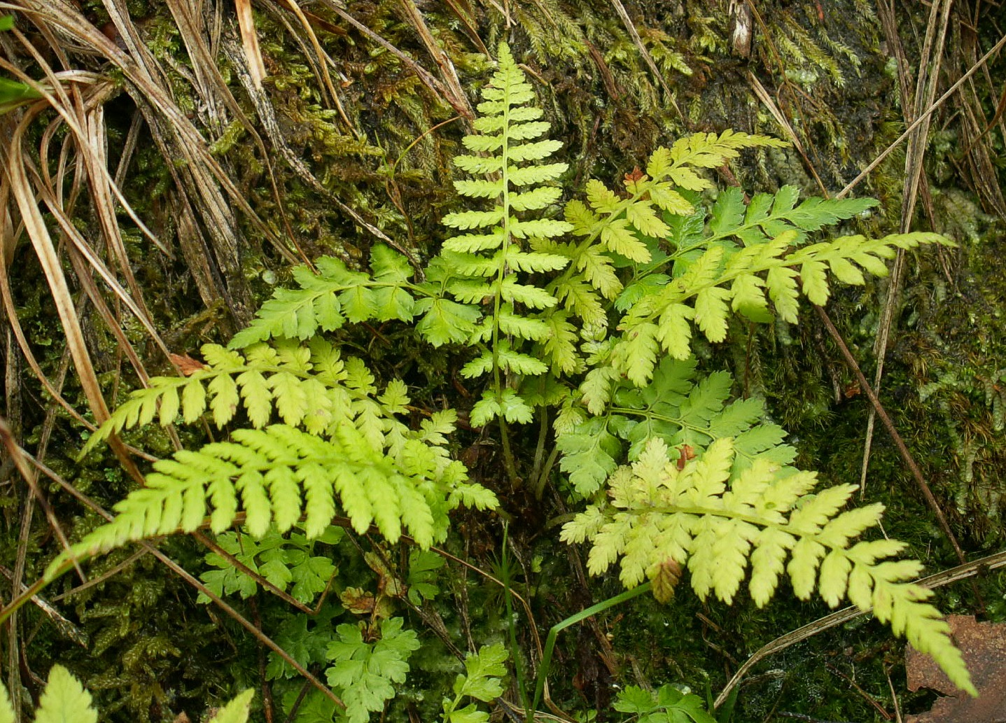 Cystopteris fragilis in beech forest near Polczyn Zdroj, NW Poland